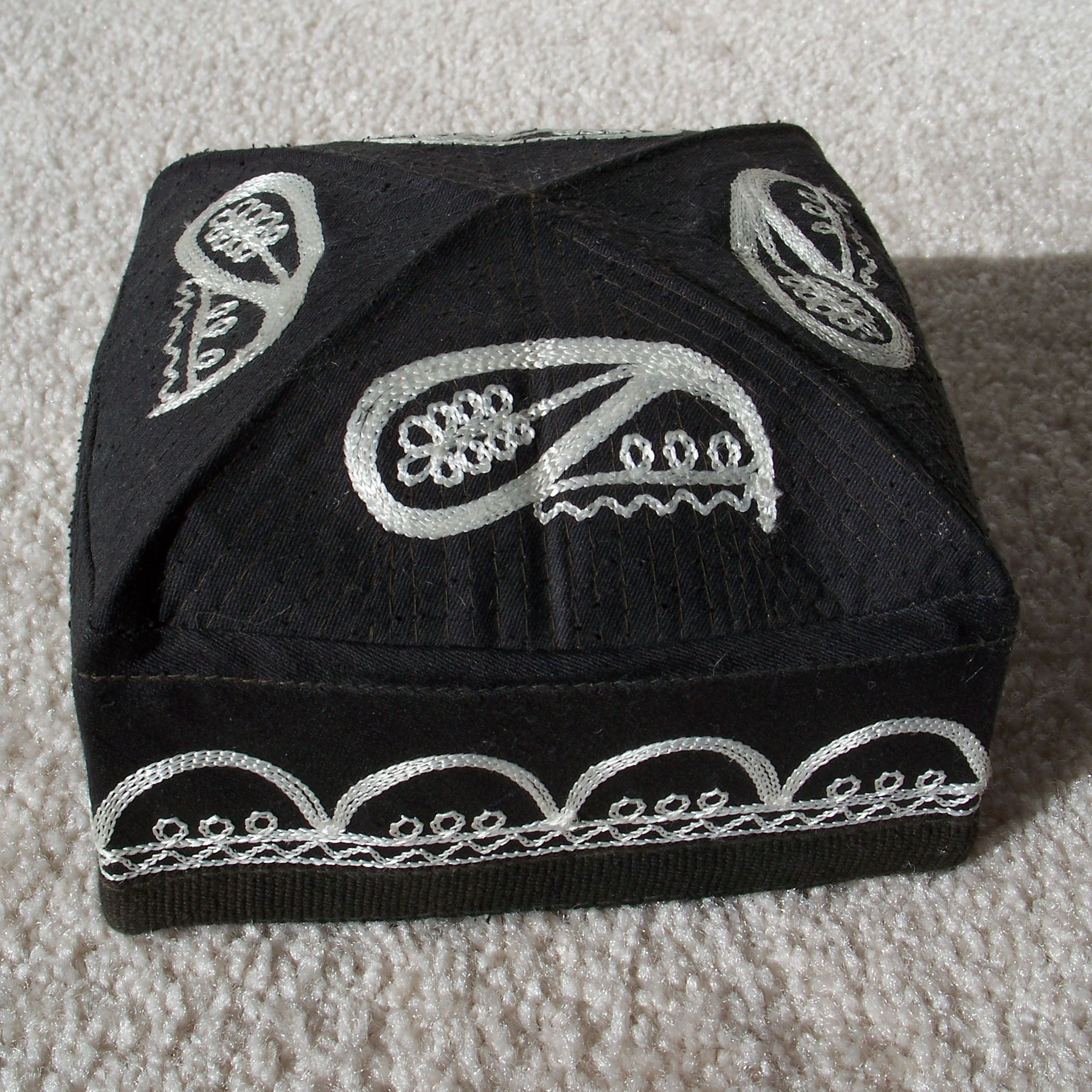 Tajik Tubeteika